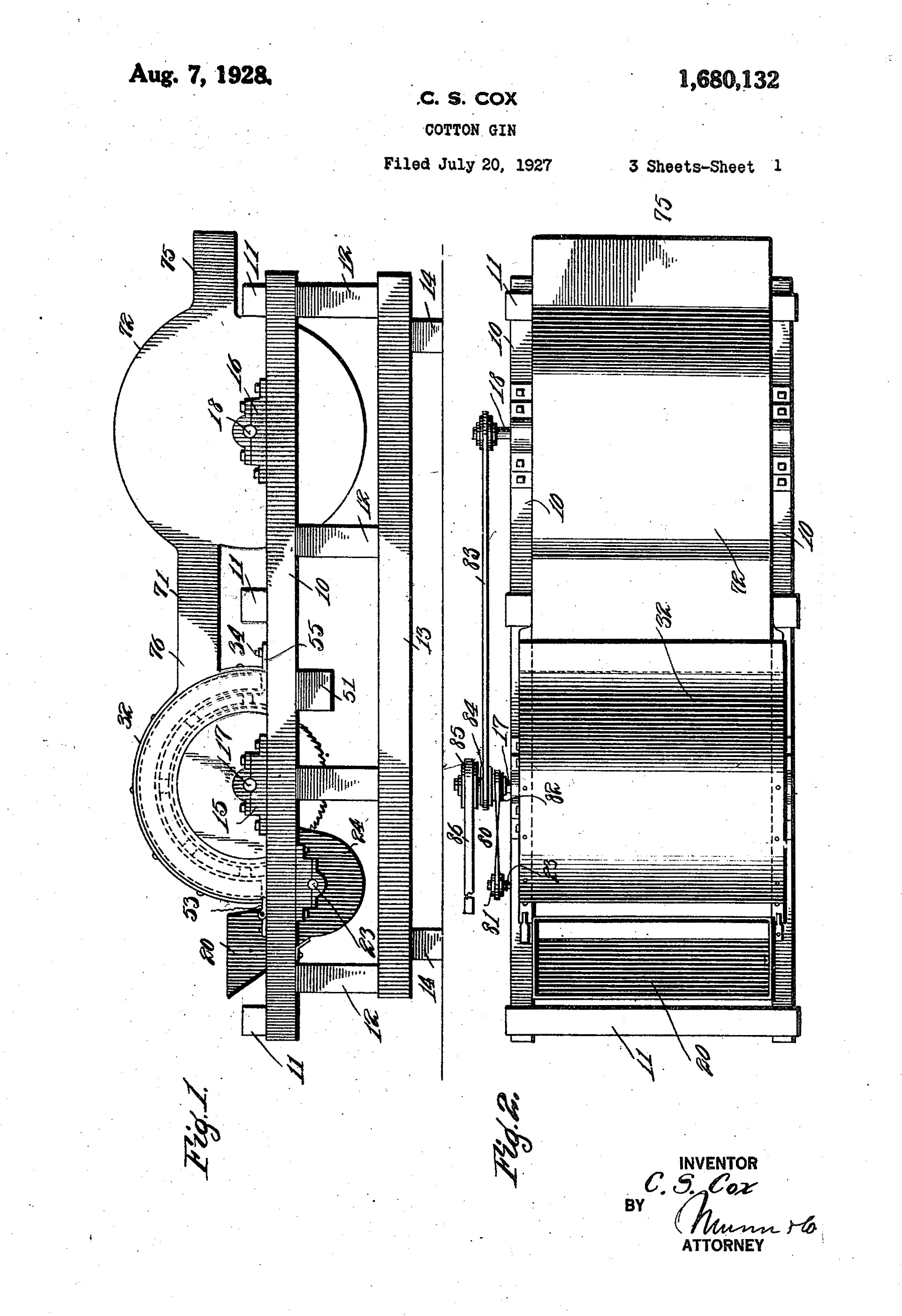 This is a Cotton Gin drawing by Cary S Cox of Fresno Calif., assignor of one third to Jessie M Cox and one third to Frances Cox; Filed Feb 15 1928. Application US207307A events;1927-07-20 Application filed; 1928-08-07 Application granted; 1928-08-07 Publication of US1680132A; 1945-08-07 Anticipated expiration.